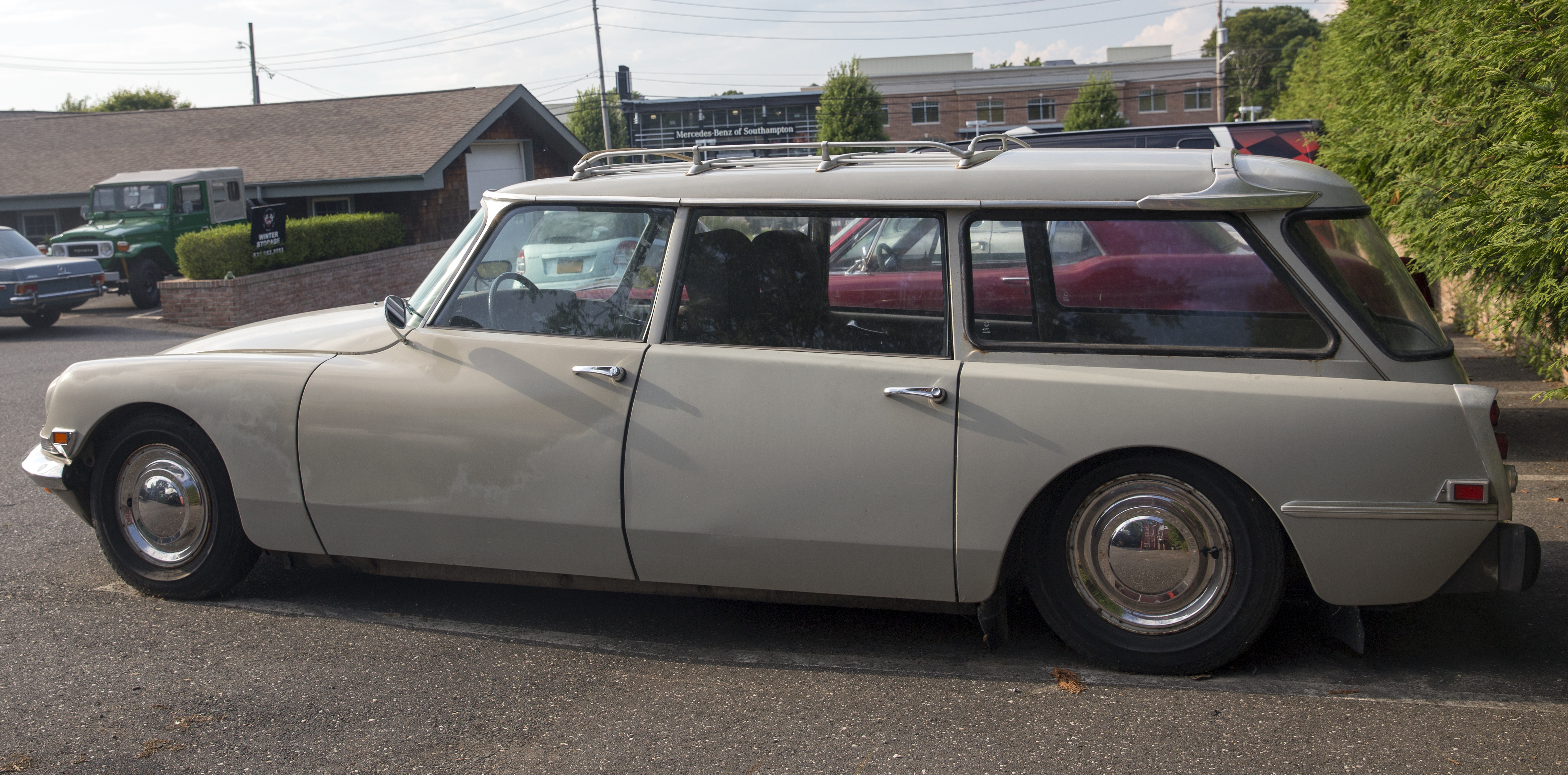 Early seventies Citroën DS Break, US market model with odd marker lights in unexpected places.